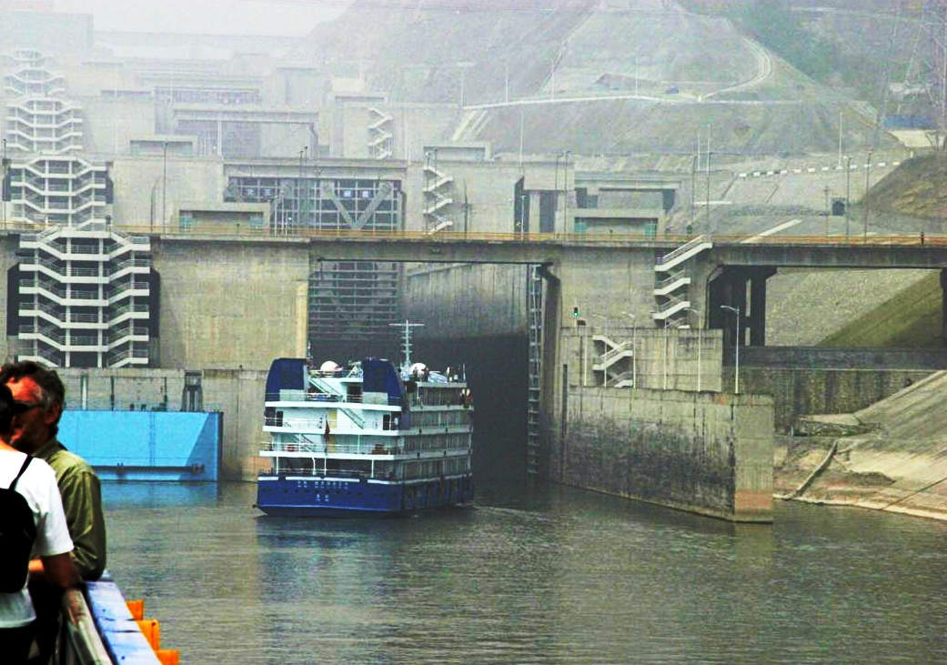 Entering_the_locks_at_the_three_gorges_dam